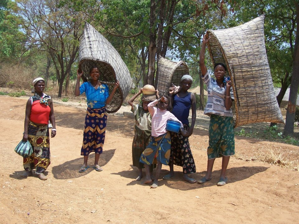 Mbunda women on a fishing spree, carrying fishing baskets over their shoulders.